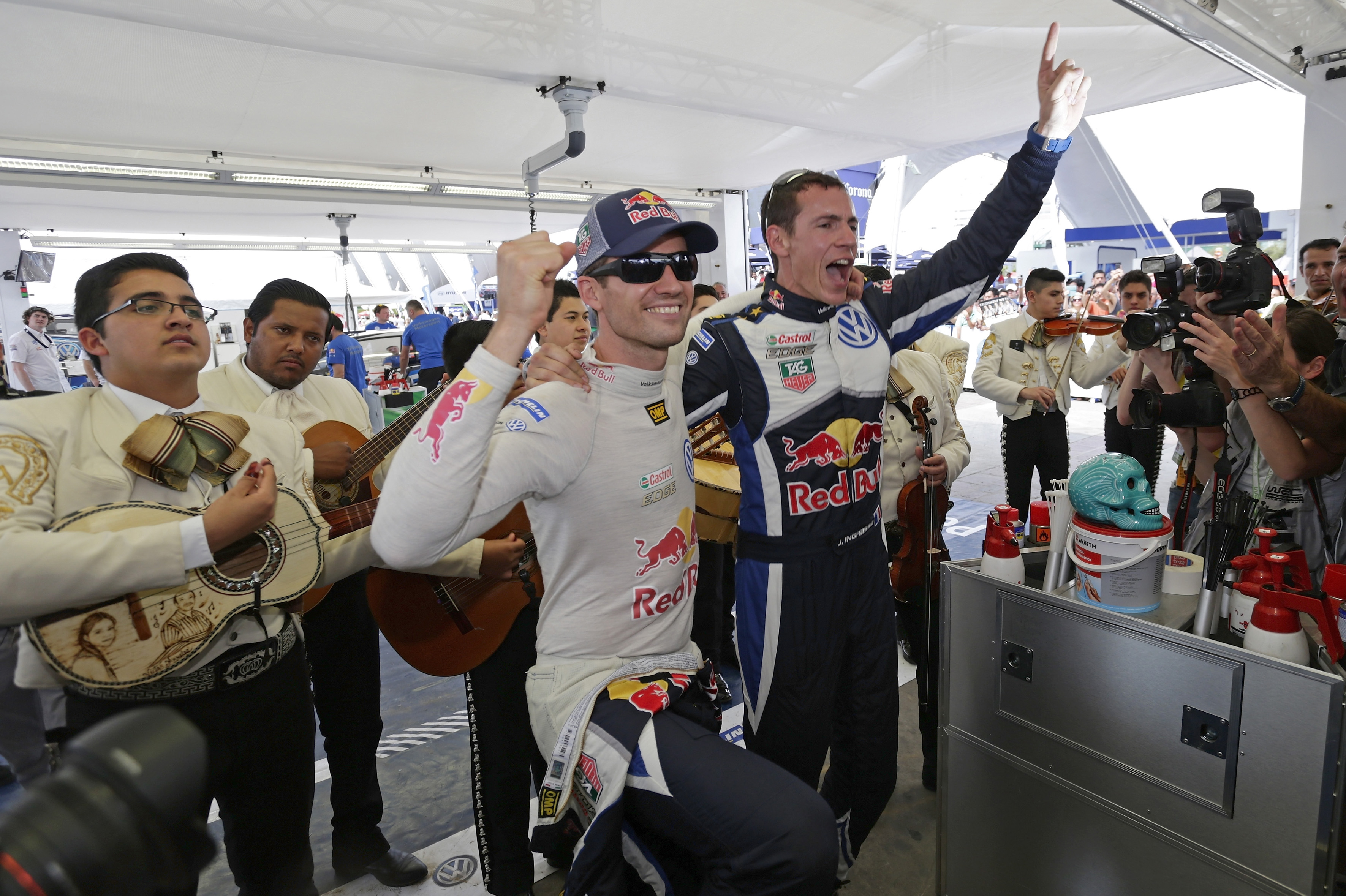 Sébastien Ogier (left) and co-driver Julien Ingrassia celebrate their win in the 2015 Rally Mexico.